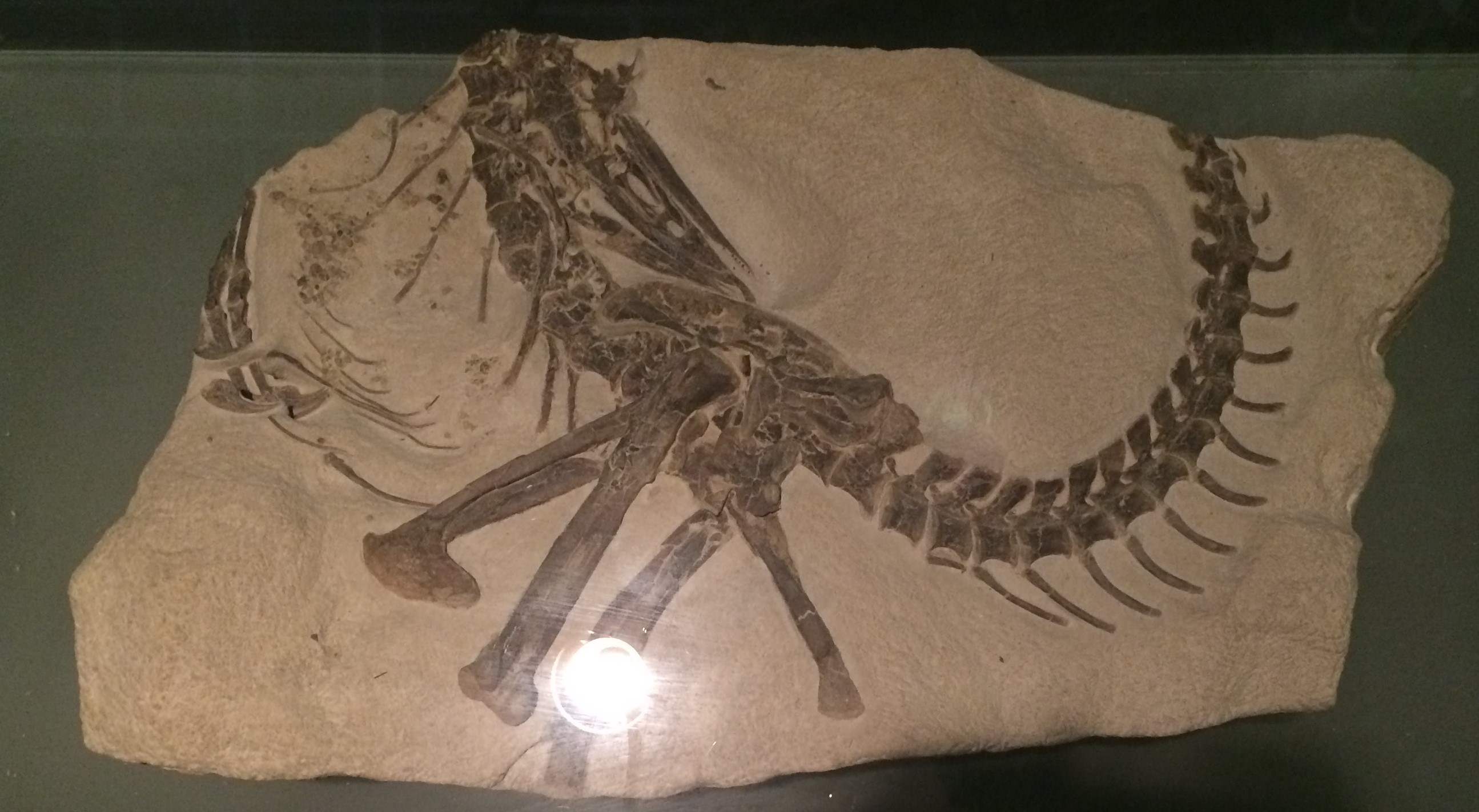 Shenzhousaurus at the Geological Museum of China